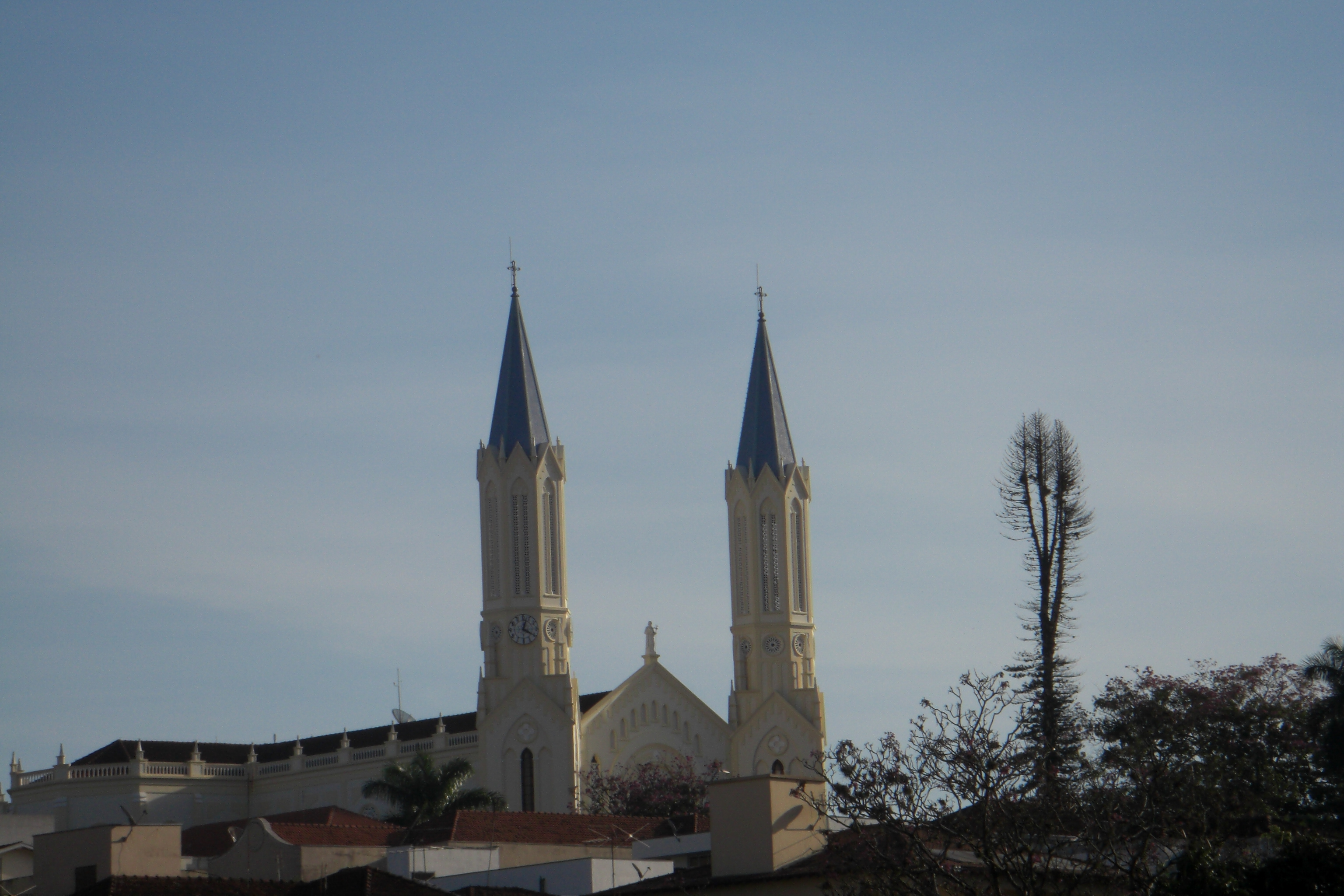 Main Church - São José do Rio Pardo, SP, Brazil